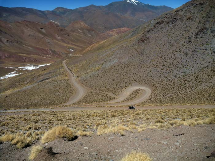 Abra del Acay, Salta province (Argentina).